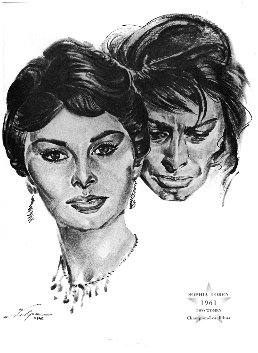 A charcoal drawing reprint of Sophia Loren after winning an Academy Award in 1961.